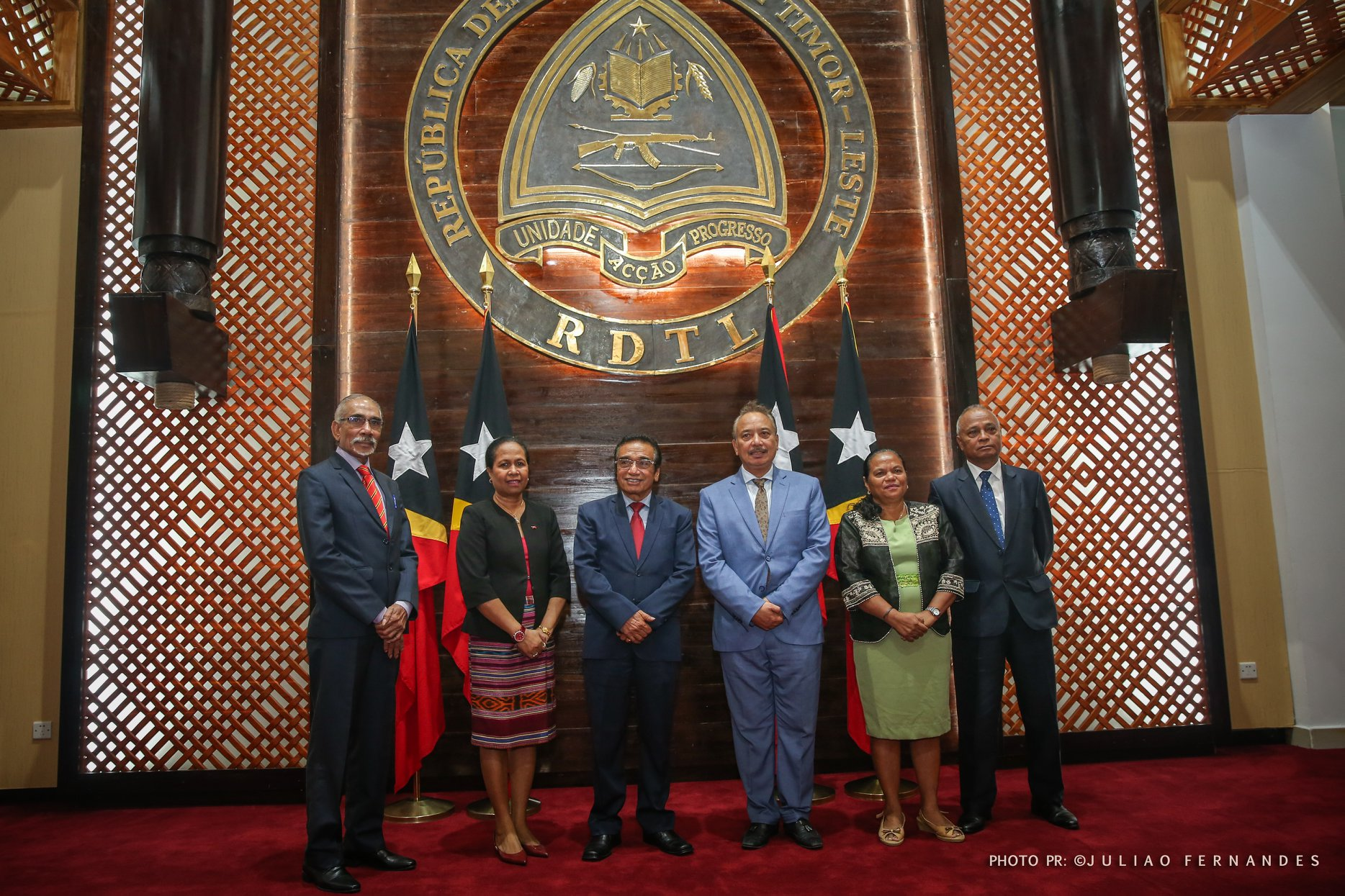 Representative of CNRT to President Francisco Guterres at the Palácio Presidente Nicolau Lobato. Maria Terezinha Viegas second from left, Maria Rosa da Câmara 2nd from right